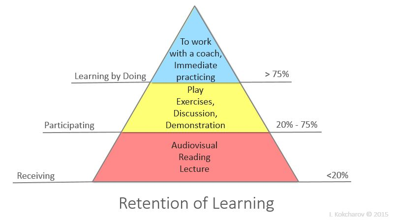 Learning Retention Pyramid includes 3 stages Receiving, Participating, Learning by Doing with different retention rates from 0 to 1000%.